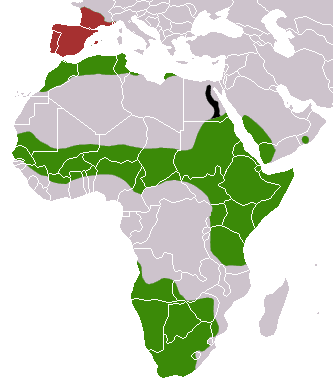 Common Genet (Genetta genetta) range (green - native, red - extant introduced, black - extinct introduced)